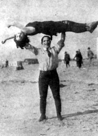 Joe Rock holding up actress Patsy de Forest at a Los Angeles beach, on page 78 of the May 29, 1920 Exhibitors Herald.